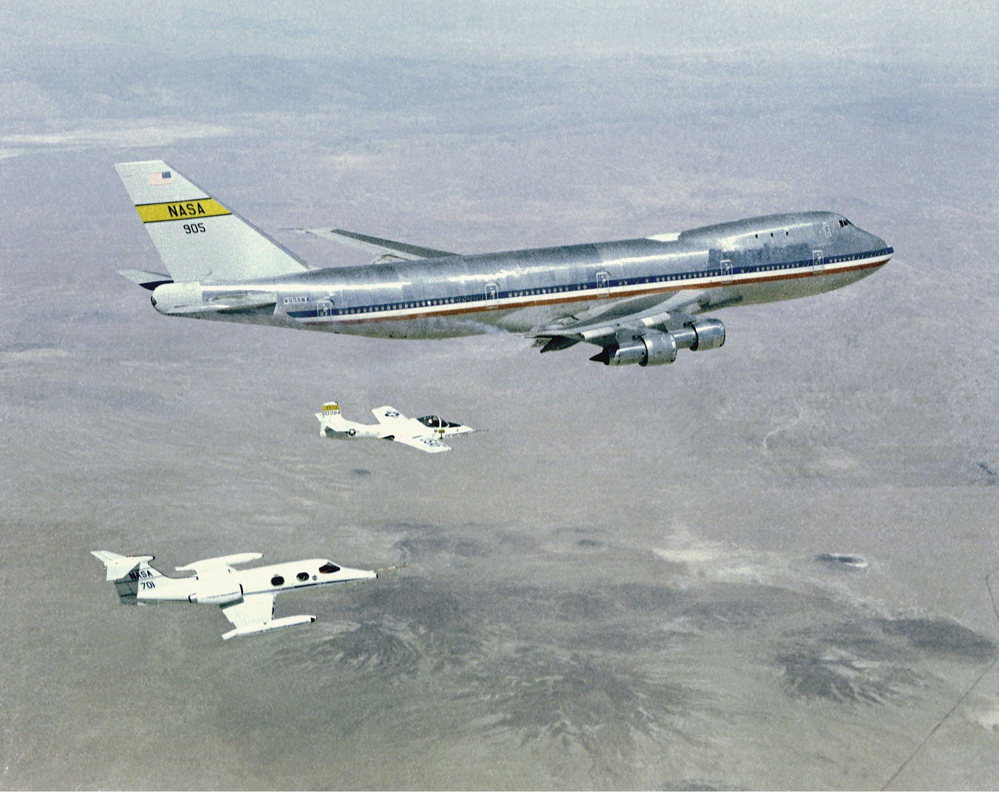 A Learjet 23 (NASA 701), a Cessna T-37 and a Boeing 747-100 (NASA 905; tail #N905NA)： Two chase aircraft, a Learjet and a Cessna T-37, are shown in formation with a Boeing B-747 jetliner in this 1974 NASA Flight Research Center (FRC) photograph. The two chase aircraft were used to probe the trailing wake vortices generated by the airflow around the wings of the B-747 aircraft. The vortex trails were made visible by smoke generators mounted under the wings of the B-747 aircraft.